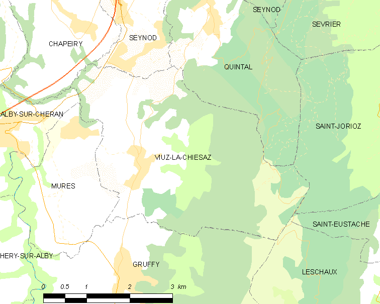 Map of French municipality Viuz-la-Chiésaz